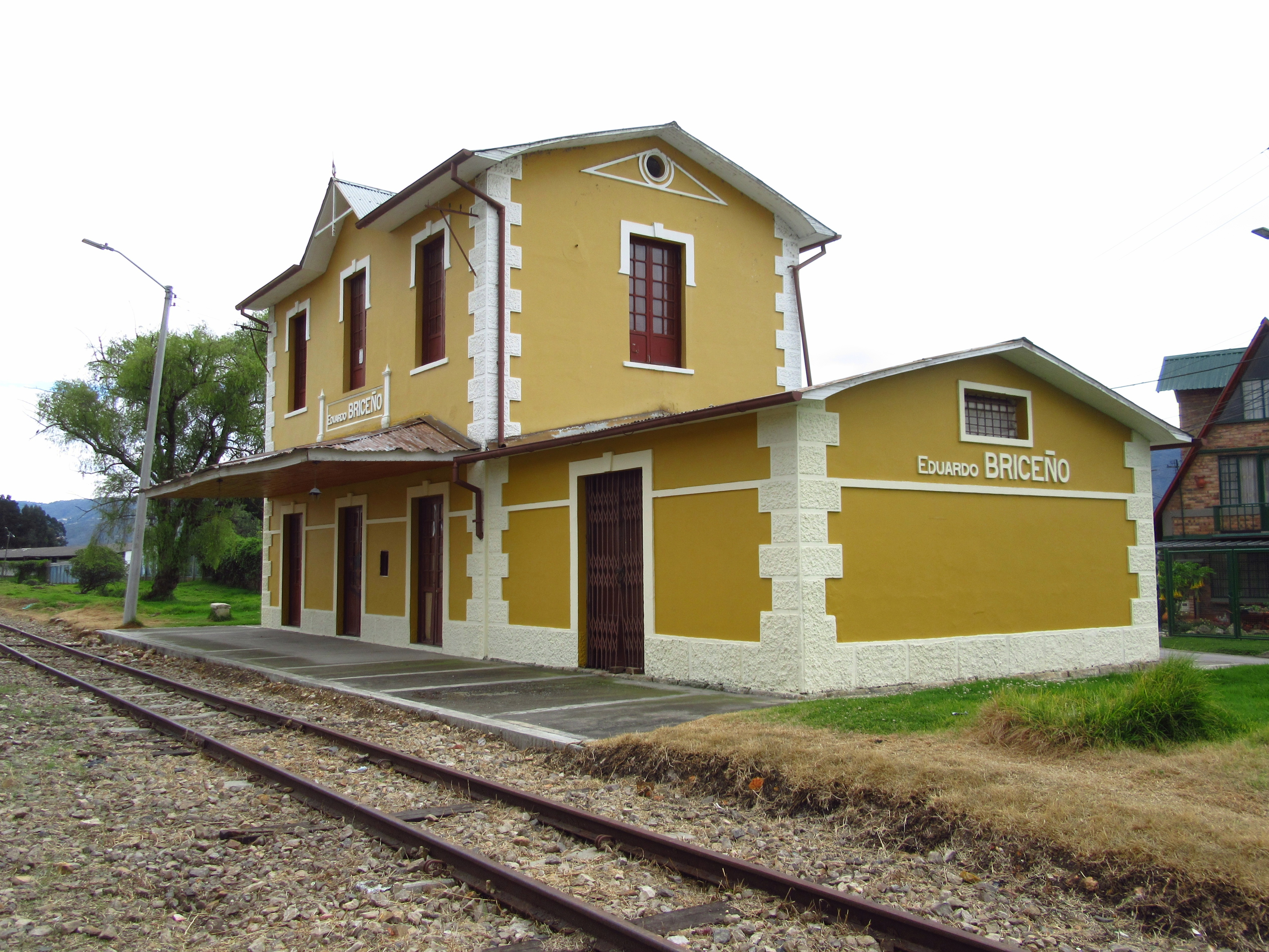 Estación ferroviaria Briceño, Sopó- Colombia